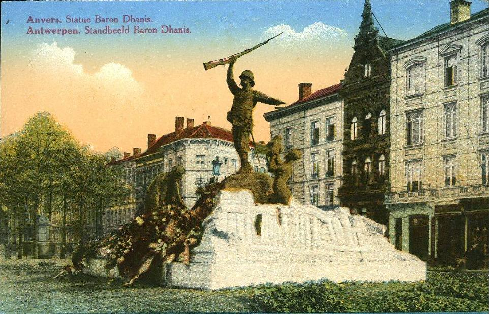 Statue of baron Francis Dhanis on Amerikalei in Antwerp (inaugurated in 1913 and removed in 1950)